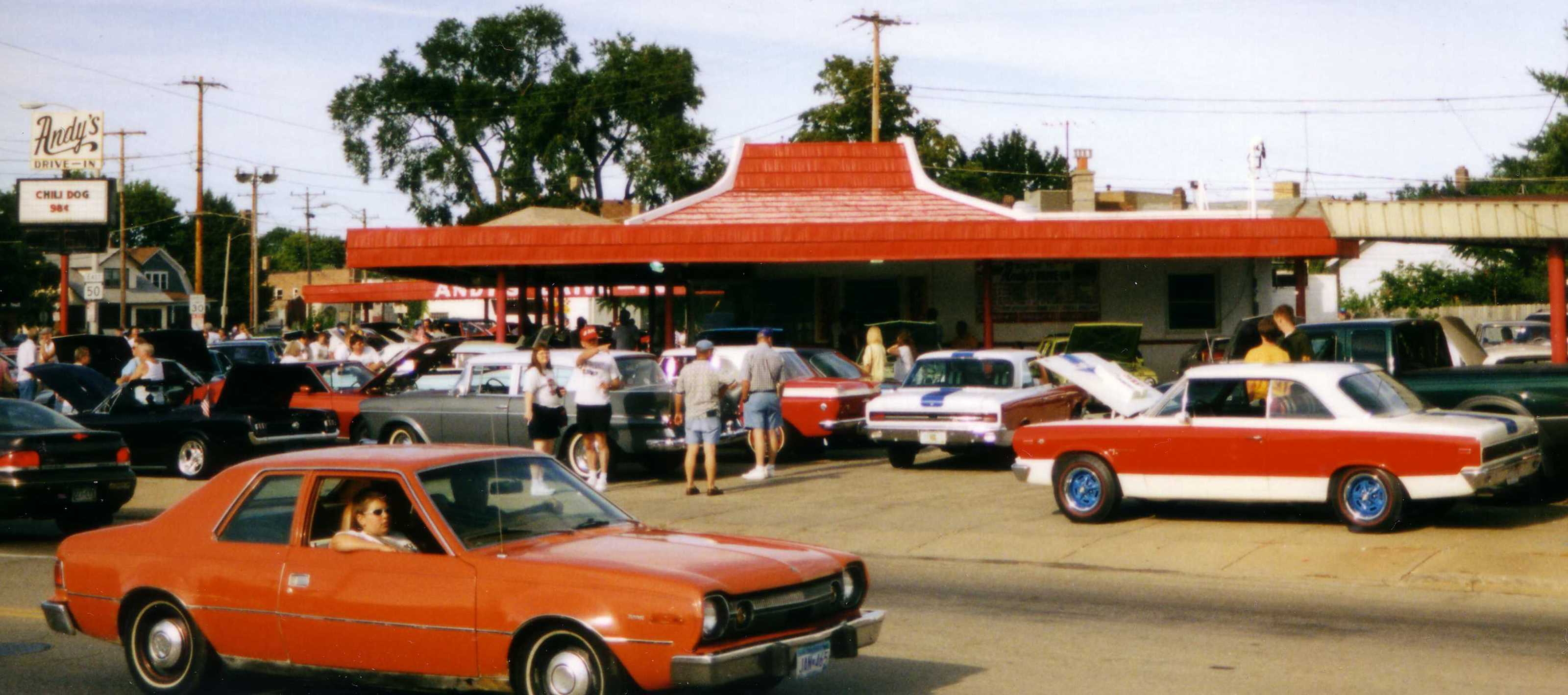 American Motors (AMC) and Rambler car clubs meeting held at Andy's Drive In -- located at: 2929 Roosevelt Rd., Kenosha, Wisconsin 53143-4641. An AMC Hornet two-door sedan is being driven in the foreground.